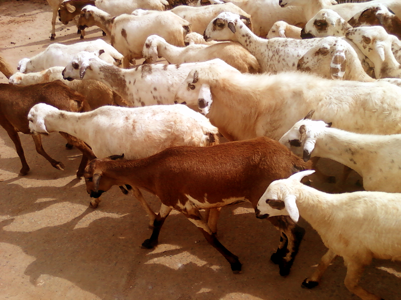 A (capra aegagrus hircus) goat herd at Rajula Tallavalasa in Visakhapatnam District